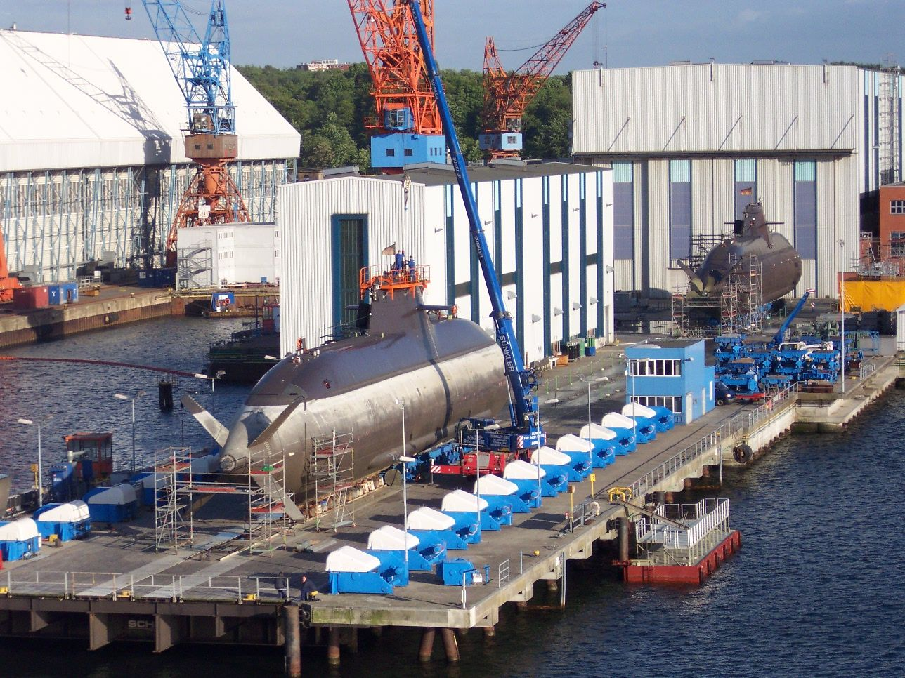 Submarine Typ 212 in Docks at HDW/Kiel. Picture taken by my own. This picture may have usage restrictions.